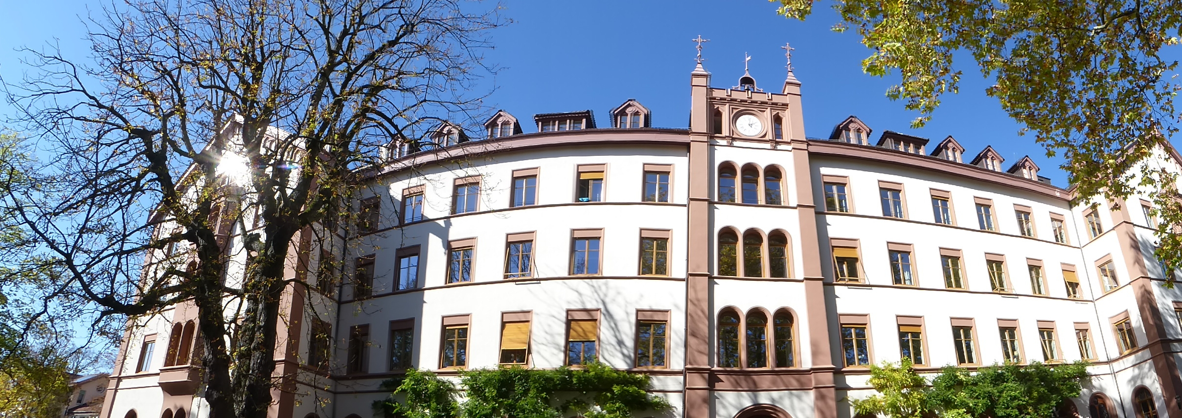 Mission 21, Evangelisches Missionswerk Basel erbaut (1858-1860) Johann Jakob Stehlin der Jüngere